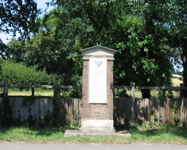 386th B.G.(M), 9th Air Force USAAF Memorial, Easton Lodge/Great Dunmow, Essex UK National Inventory of War Memorials No.22972 The 386th Bomb Group ("The Crusaders") of the United States Army Air Force moved from nearby Boxted with their B-26 bombers to the airfield built in the grounds of the Easton Lodge estate on 25th September 1943, known as: "Station 164", Dummow, Easton Lodge or Great Easton. They departed for Beaumont-sur-Oise, about 20 miles north of Paris on 2nd October 1944. This memorial was erected by the Essex Anglo-American Goodwill Association (EAAGA) and consists of a front panel with the EAAGA blue symbol and below: "We Salute And Commemorate The Courage Of Our Gallant Allies Of The American Army Air Force Who Flew Out Against The Enemy From This Essex Airfield 1941-5", and "Essex Anglo-American Goodwill Association" at the base. The left and right side of the memorial detail those Killed In Action or Missing In Action from the 552nd, 553rd, 554th and 555th Bomb Squadrons (available in other detail images). For more details on the history of this and other Essex airfields, many in use by the USAAF, see: "Essex Airfields In The Second World War" by Graham Smith, published by Countryside Books ISBN 1 85306 405 X. Other images of this Memorial: 1368706 1368713 1368718 1368726 1368731 1368739 1368747 NOTE:After publishing this image, I became aware that a memorial plaque is missing from the base of the face of this memorial - you can see a slight mark on the brickwork. It was in place in May 2007 when photographed by Mr Richard E Flagg whose images are available here: and